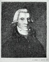 Scan of a picture of scientist Richard Kirwin (who died in 1812)